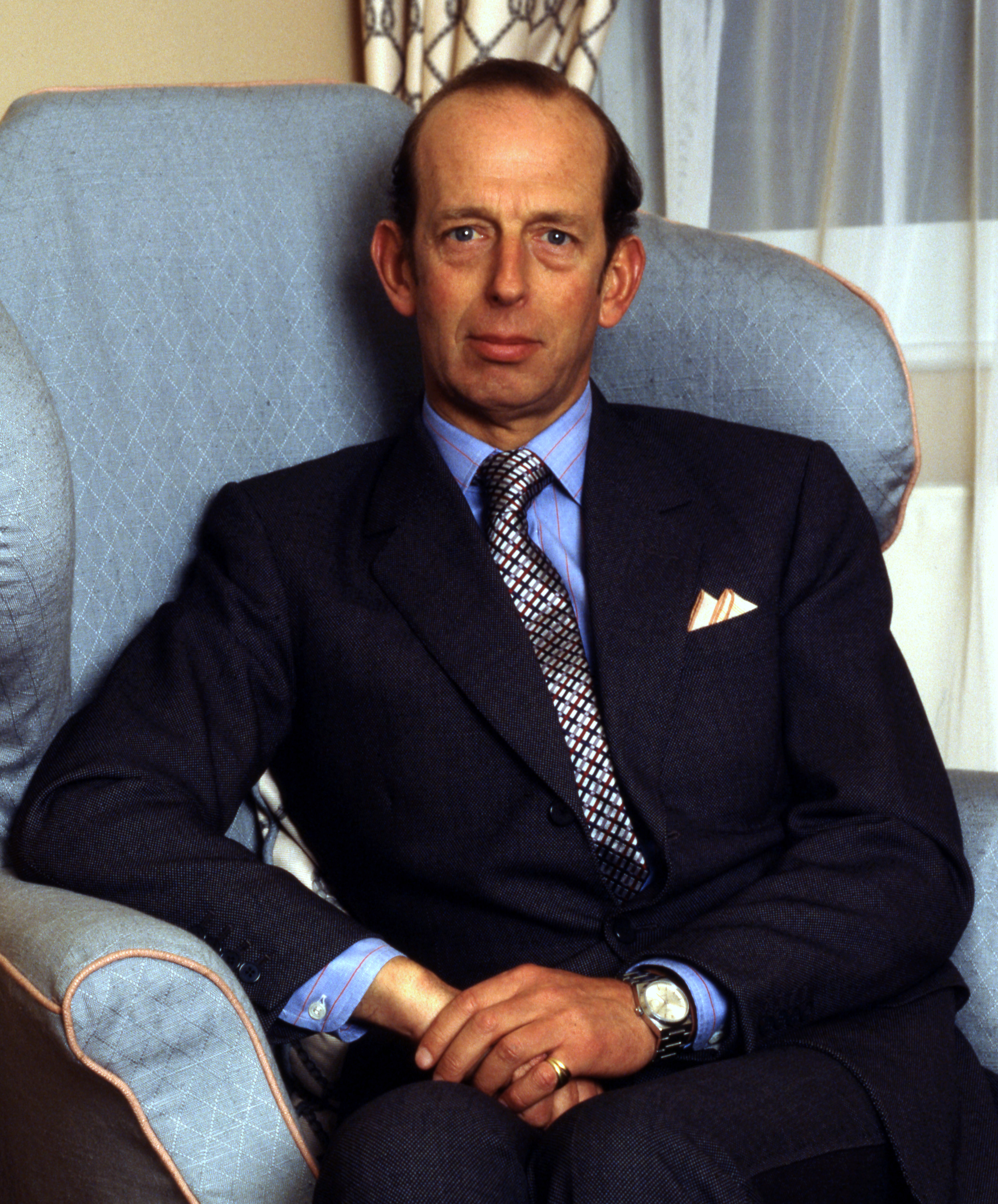 Prince Edward, Duke of Kent KG GCMG GCVO ADC